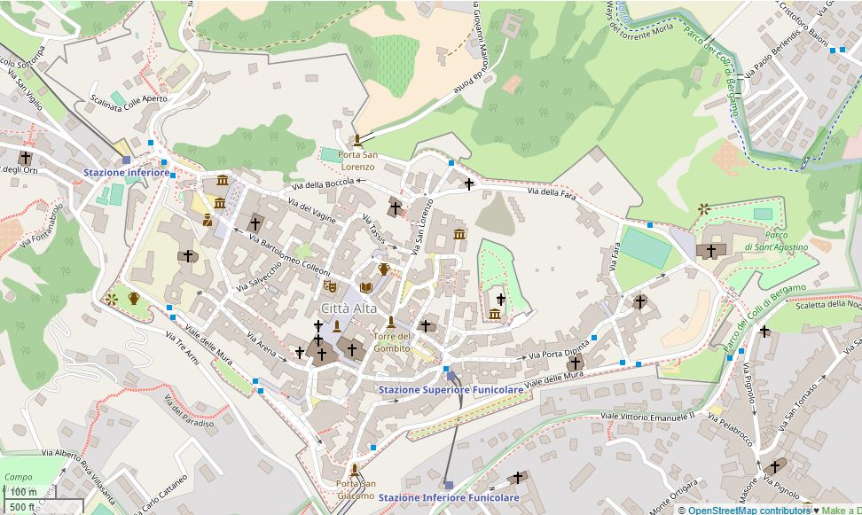 Bergamo, Città Alta) This map may be incomplete, and may contain errors. Don't rely solely on it for navigation.